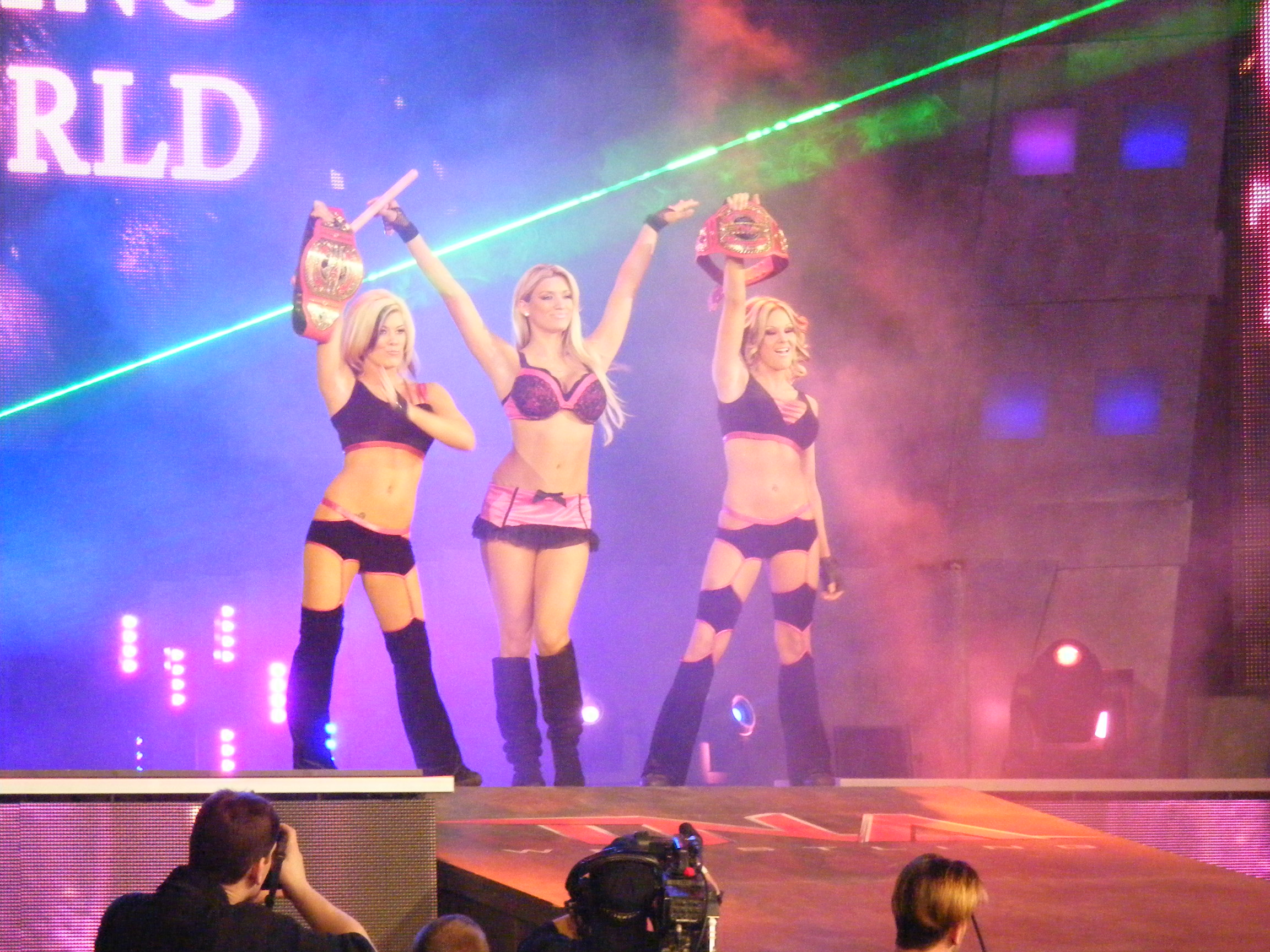 The Beautiful People pose on the stage with the TNA Knockouts Tag Team Titles during an Impact taping. (L to R) Madison Rayne, Lacey Von Erich & Velvet Sky